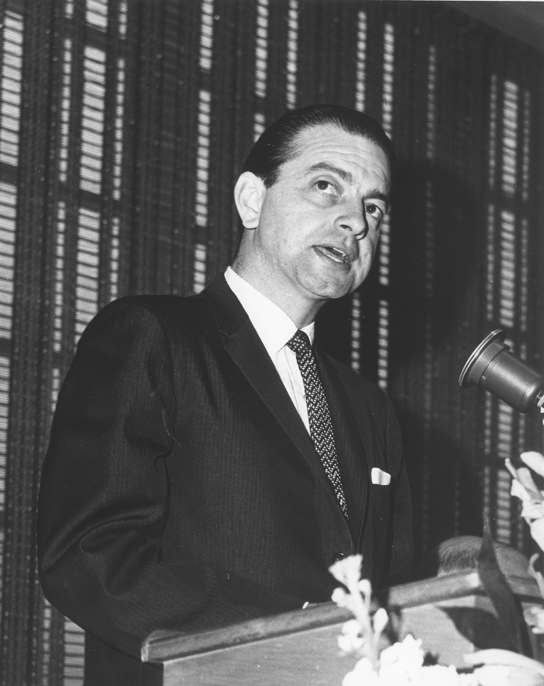 Tom Vandergriff witness to signing ceremony of Arlington State College Four-Year College Bill.